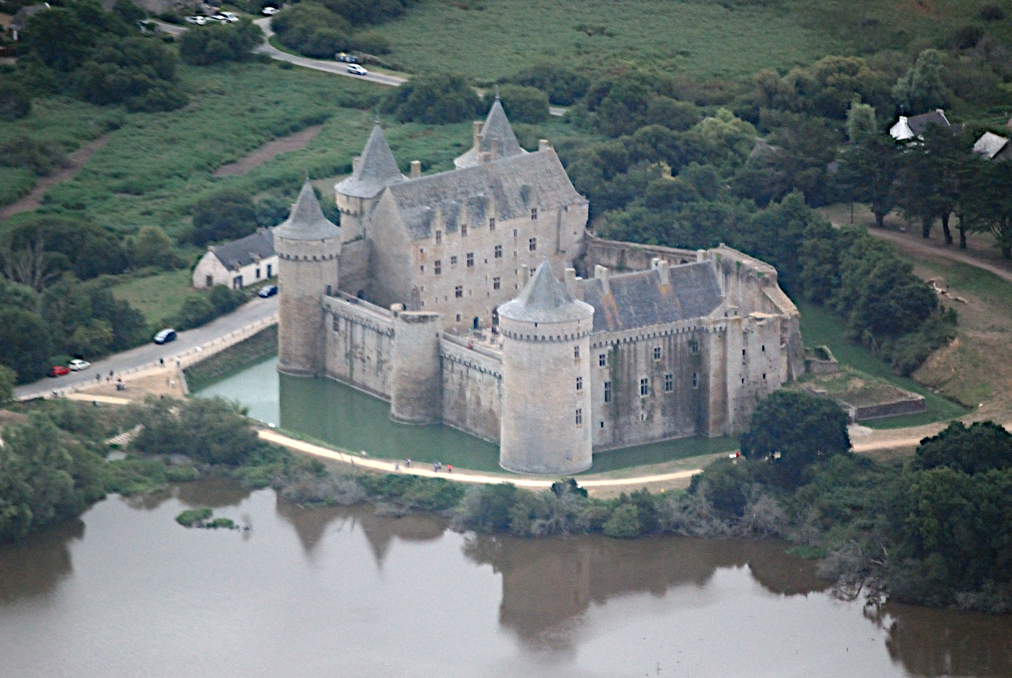 Aerial view from the North-West of Suscinio castle at Sarzeau, Brittany. Nikon D60 f=190mm f/5.6 at 1/4000s ISO800. Processed using Nikon ViewNX 2.1.2 and GIMP 2.6.11.